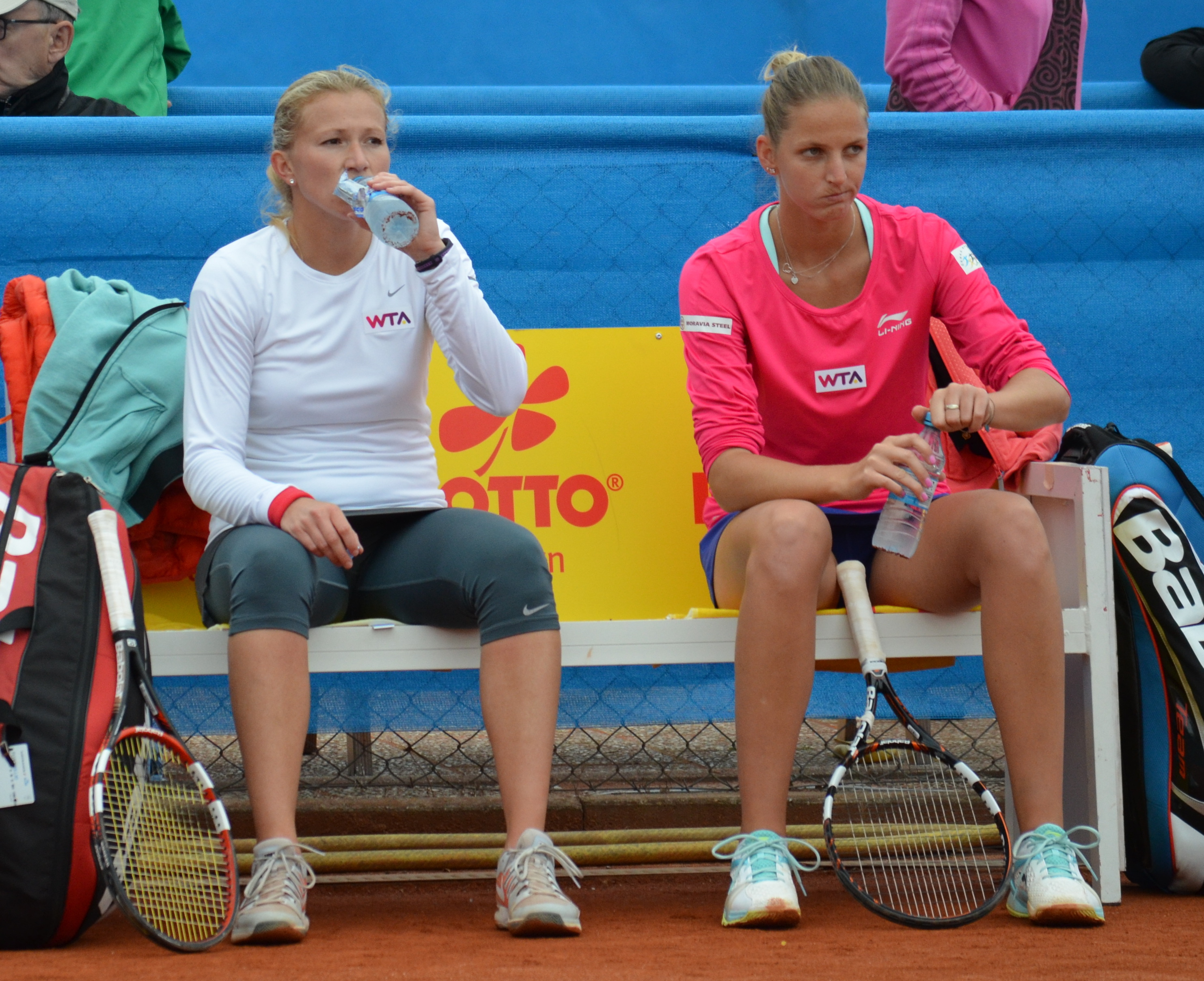 Michaëlla Krajicek (left) and Karolína Plíšková (right) during their first round doubles match against Yvonne Meusburger and Kathinka von Deichmann, at the 2014 Nürnberger Versicherungscup